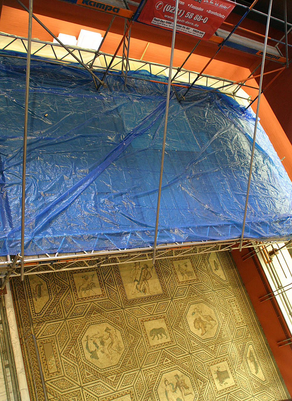 The Ancient Roman floor mosaic depicting dionysiac scenes (Dionysosmosaik), dating from the 220s AD. Exhibited in the "Römisch-Germanisches Museum" in Cologne (Germany).